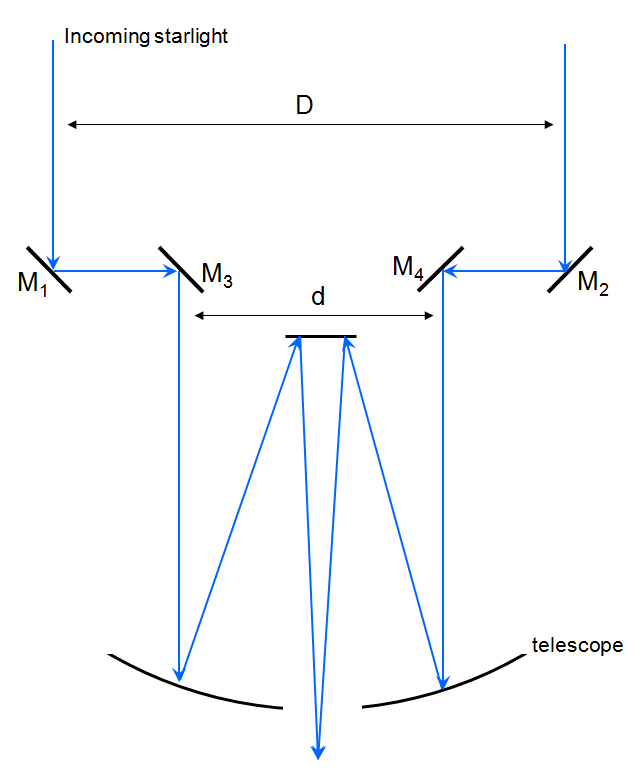 An illustration of Michelson stellar interferometer